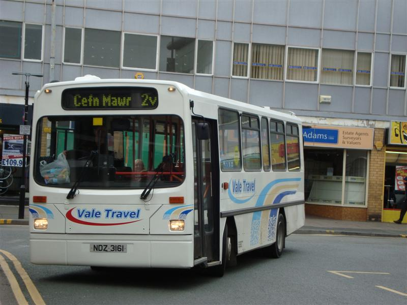 Vale Travel NDZ 3161, a Dennis Dart/Wright Handybus, turning into Lord Street, Wrexham on route 2V. Vale Travel is owned by GHA Coaches. It was delivered new to London Buses Ltd in March 1993 as bus DW161 (reg. NDZ 3161), and was privatised as part of the London General fleet, before passing to Brighton & Hove Buses, and then onto Maynes Buses, before being sold to GHA in October 2008, following the January 2008 takeover of Maynes bus division by Stagecoach Group.